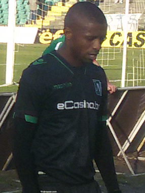 Brazilian footballer Jonathan Cafu